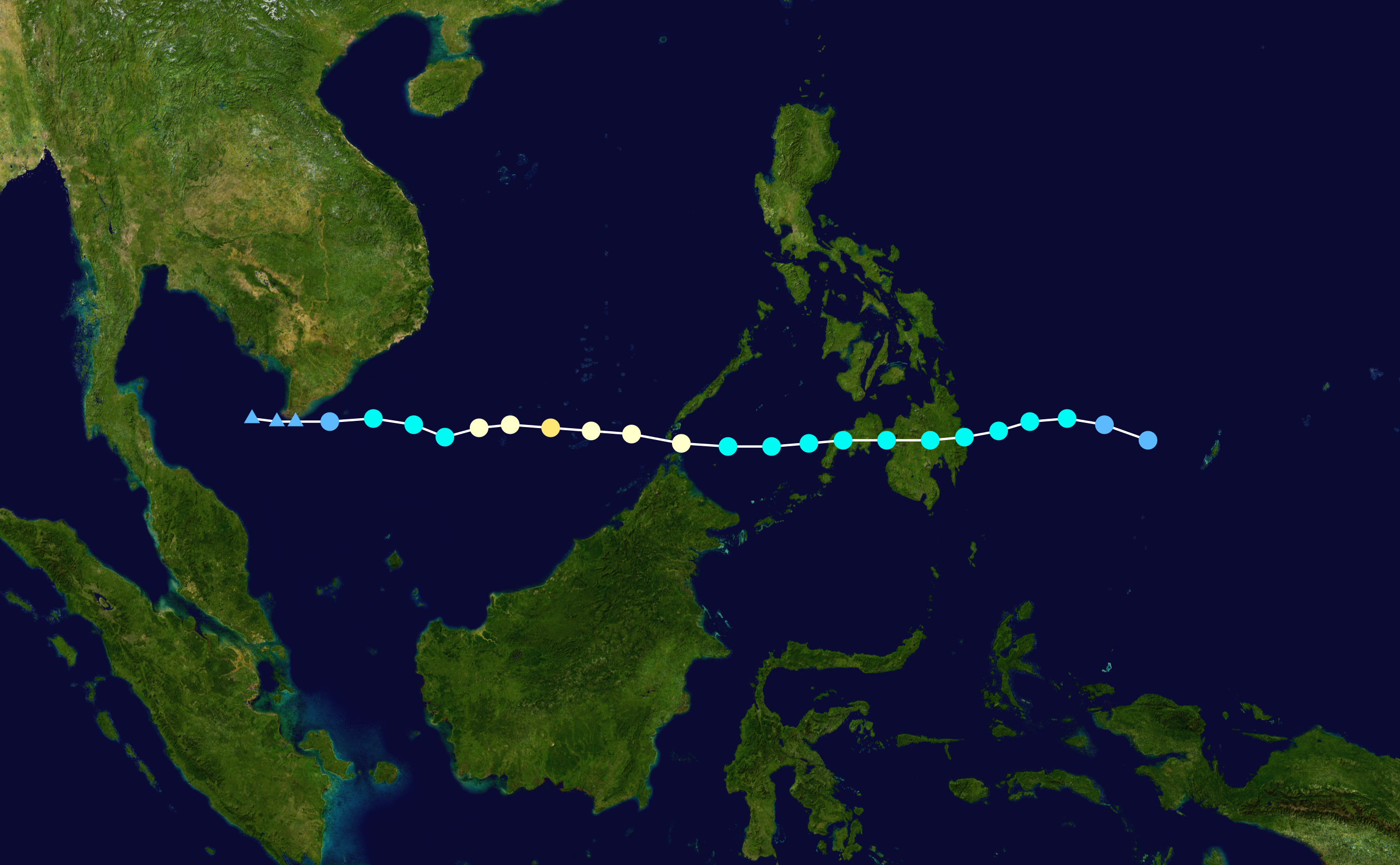 Track map of Typhoon Tembin of the 2017 Pacific typhoon season. The points show the location of the storm at 6-hour intervals. The colour represents the storm's maximum sustained wind speeds as classified in the Saffir–Simpson scale (see below), and the shape of the data points represent the nature of the storm, according to the legend below. Saffir–Simpson scale Tropical depression≤38 mph≤62 km/h Category 3111–129 mph178–208 km/h Tropical storm39–73 mph63–118 km/h Category 4130–156 mph209–251 km/h Category 174–95 mph119–153 km/h Category 5≥157 mph≥252 km/h Category 296–110 mph154–177 km/h Unknown Storm type Tropical cyclone Subtropical cyclone Extratropical cyclone / Remnant low / Tropical disturbance / Monsoon depression